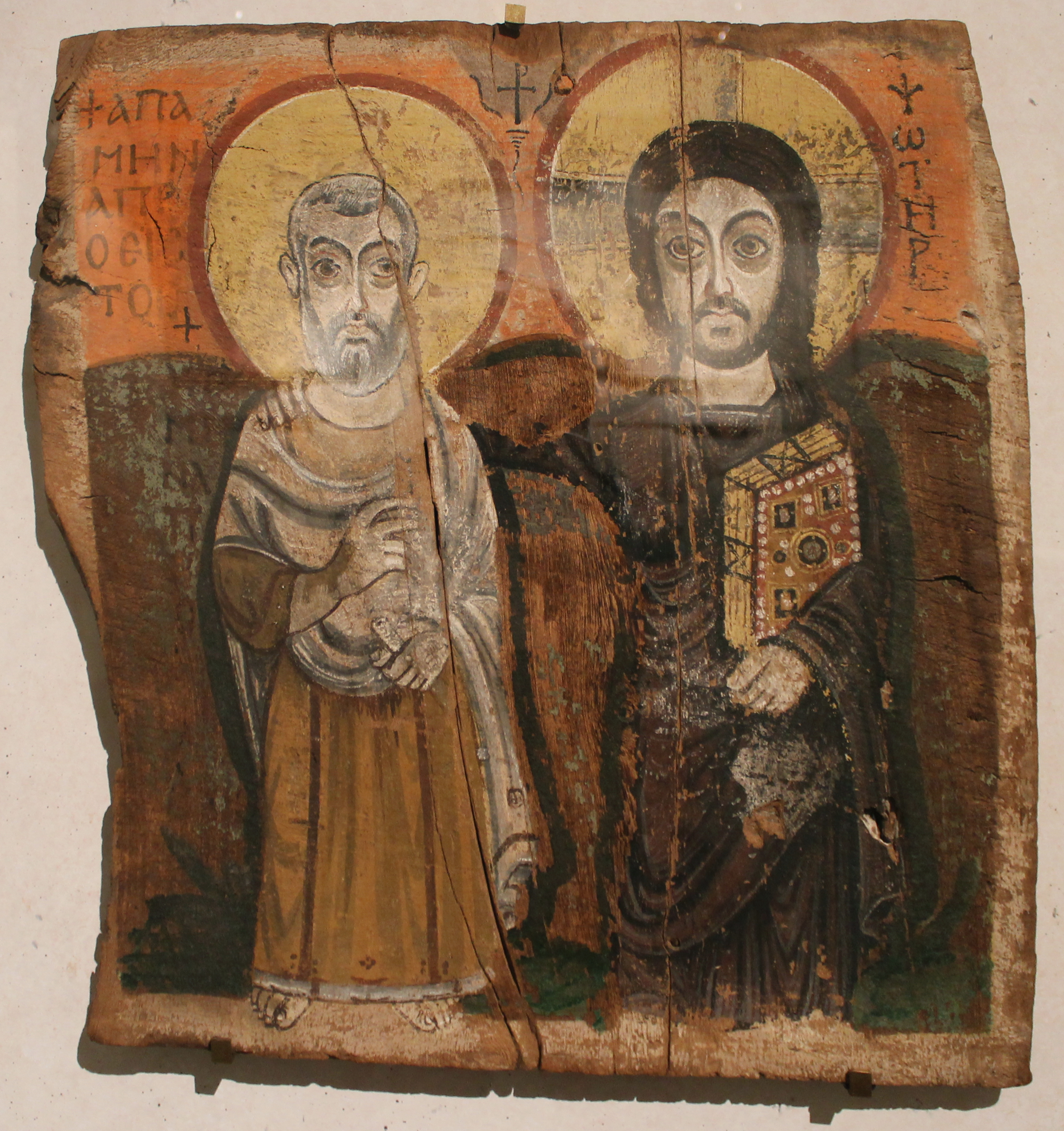 Icon of Christ and Menas Panneau du Christ et de l'abbé Ména. VIe - VIIe siècle après J.-C. Monastère de Baouit. Peinture à la cire et à la détrempe sur bois de figuier.Jesus and Minas Coptic icon,It is one of the oldest known icons in existence